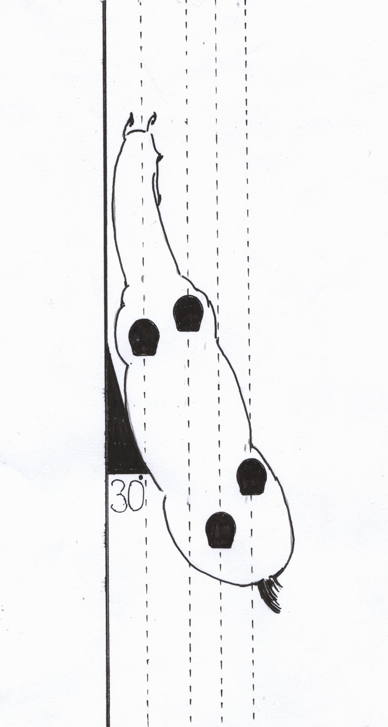 Travers or Haunches-in: A lateral four-track movement with the croupe about 30 degrees into the arena and the neck parallel to the rail with a slight flexion of the pole to the inside. (pencil and ink drawing)